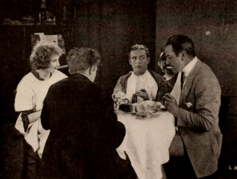 Still from the American film The Love Burglar (1919) with Anna Q. Nilsson and Wallace Reid, on page 106 of the July 26, 1919 Exhibitors Herald